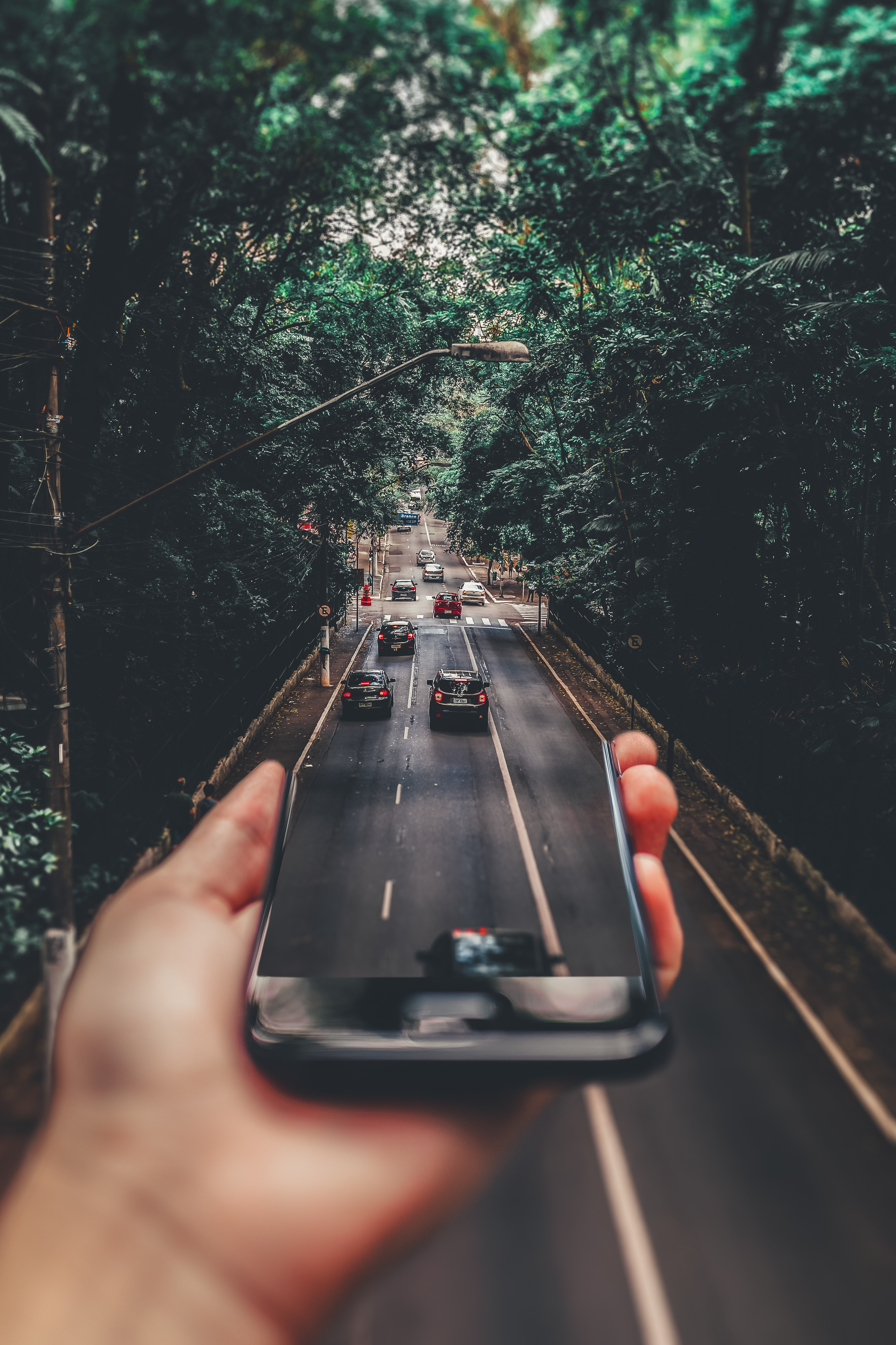 Composite shot of an iPhone and Brazilian street Digital Sublime